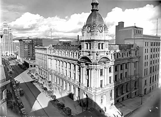 Vancouver Post Office/Federal Building at North West Granville and Hastings Street in Vancouver, British Columbia, Canada. Now the Sinclair Centre.